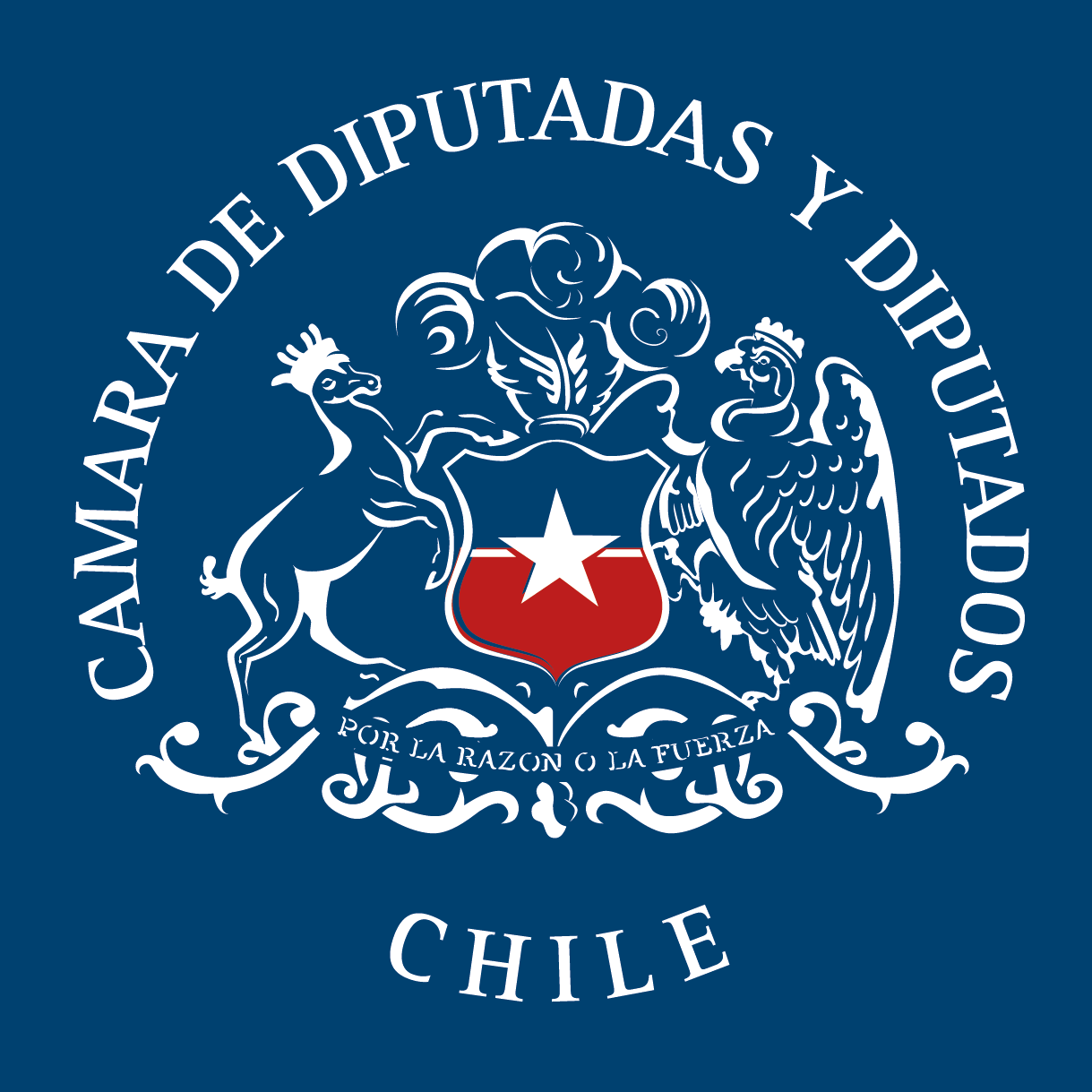 Emblem of the Chamber of Deputies of the Republic of Chile since 2020.